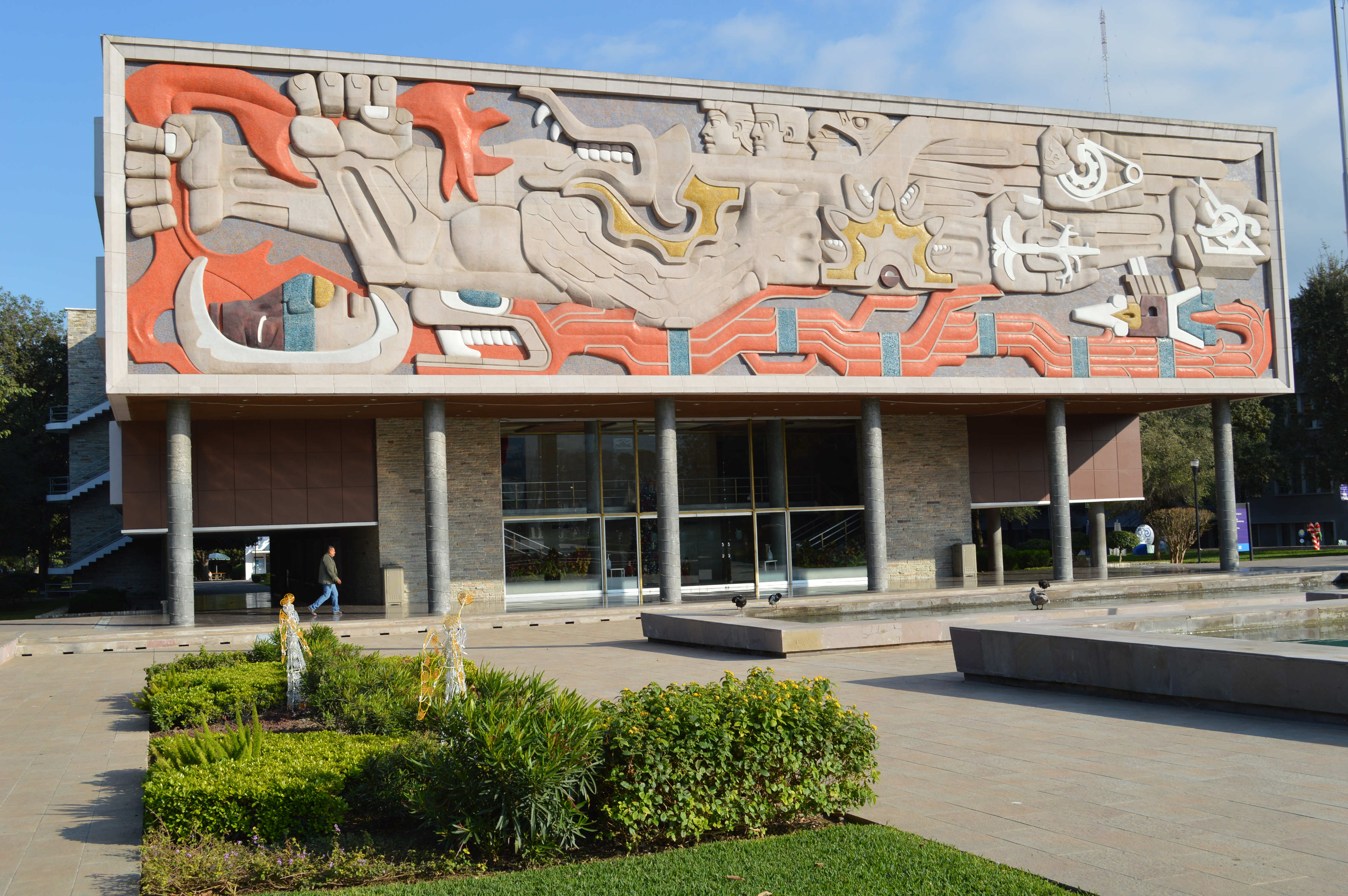 View of the Rectoria or main administration building at ITESM Campus Monterrey